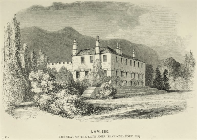 The old house at Ilham, Staffordshire, England. Former home of the Port family. Demolished in 1819. Published in in 1862, this view is from a sketch made in 1807.